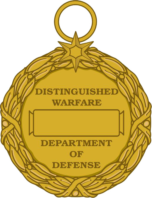 Defense Secretary Leon E. Panetta has approved the Distinguished Warfare Medal, designed to recognize service members directly affecting combat operations who may not even be on the same continent as the action. DOD graphic